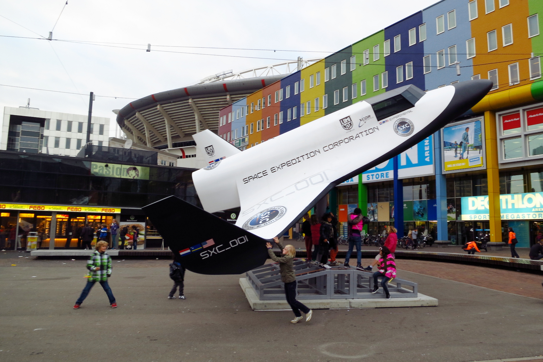 Model of an XCOR Lynx space plane in front of Mediamarkt Amsterdam